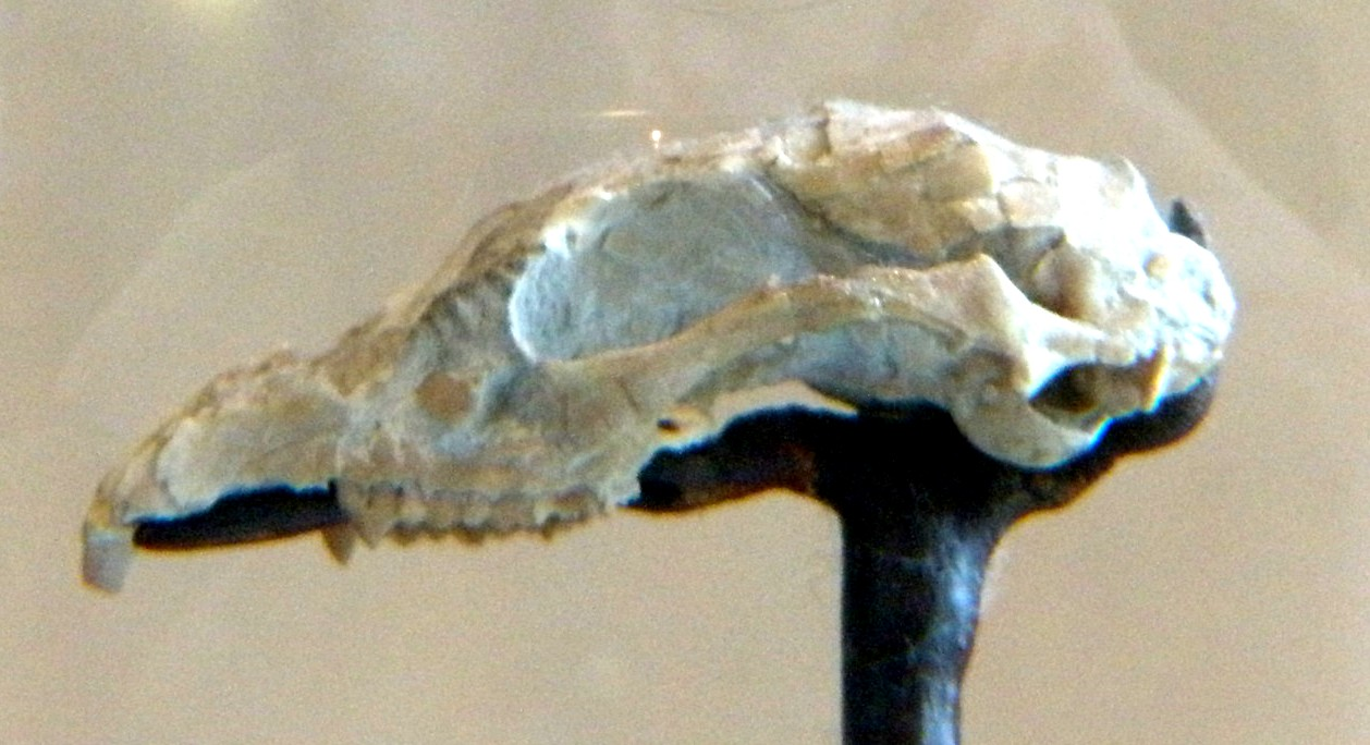 Fossil of Herpetotherium fugax (jr synonym Peratherium fugax), a fossil marsupial